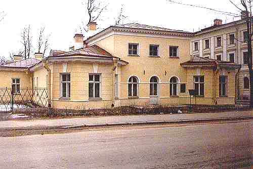 Дом Теппера в Царском Селе